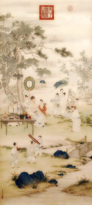 The Qianlong Emperor Viewing Paintings, 1746—c.1750, by Giuseppe Castiglione (Chinese name Lang Shining, 1688—1766) and Ding Guanpeng (fl.c. 1738—1768). Hanging scroll, ink and colour on paper. The Palace Museum, Beijing.